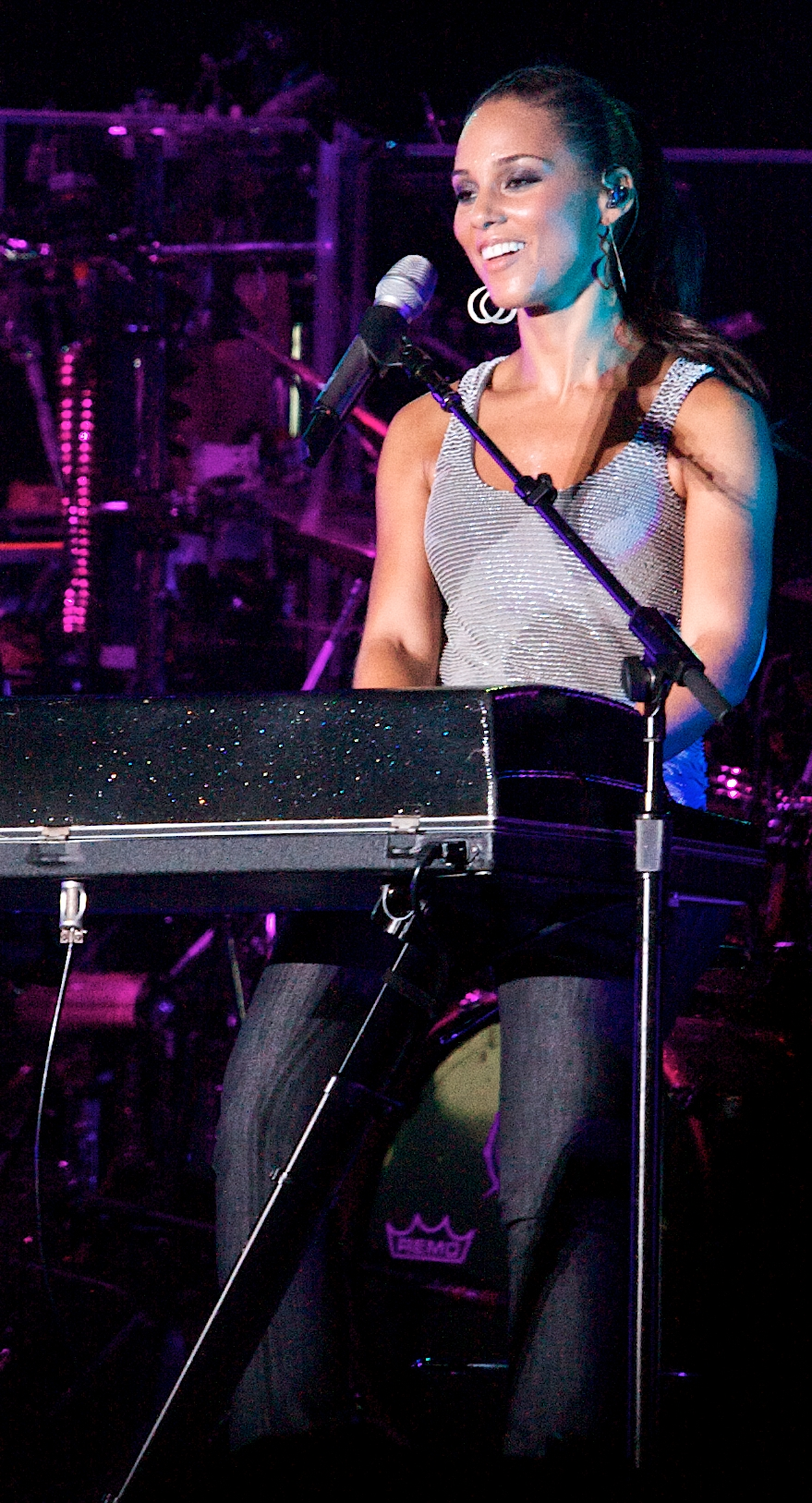 Alicia Keys at Tokyo Summer Sonic 2008.